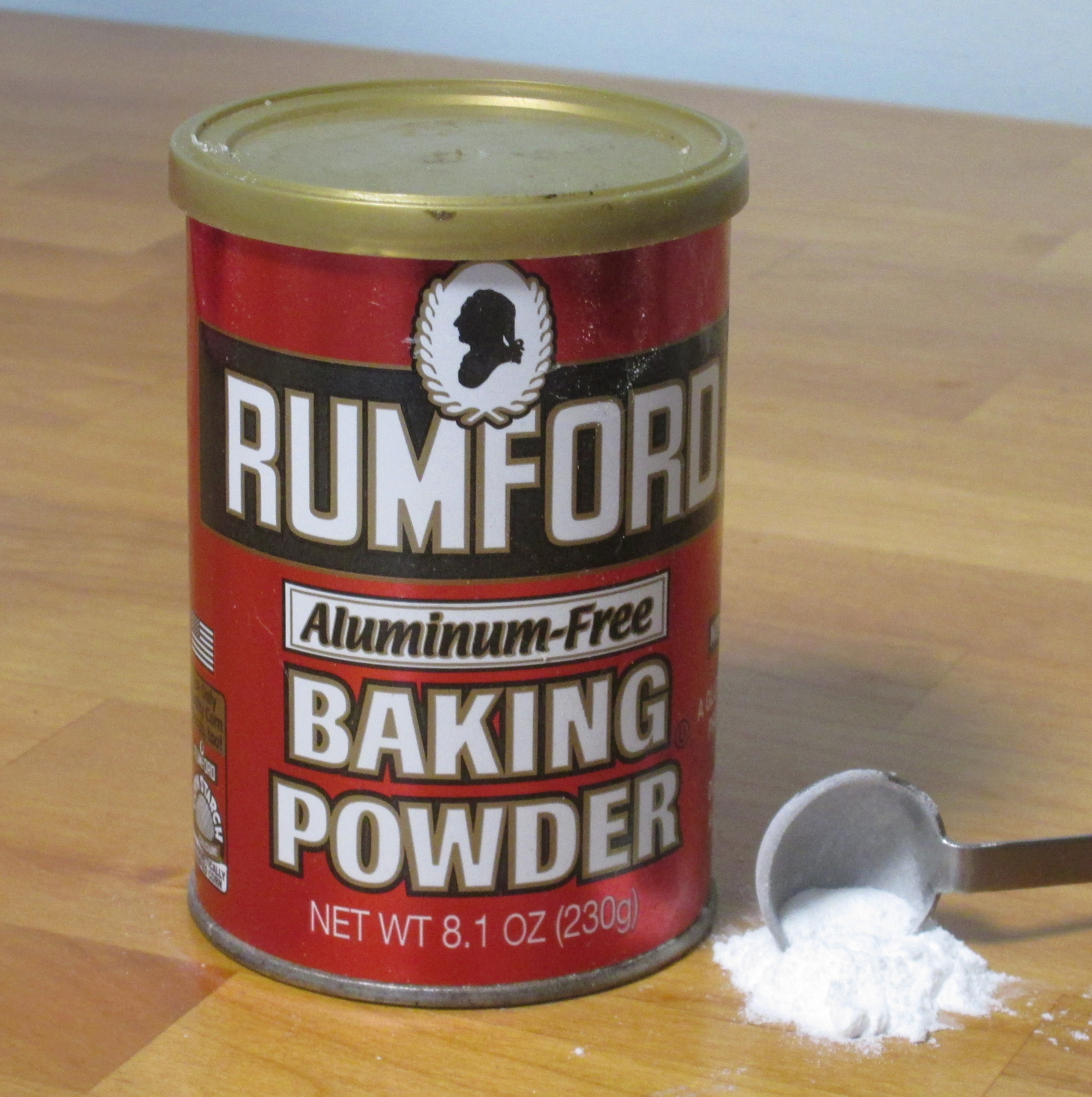 Baking powder, showing a 2013 container and the powder itself. Labeled aluminum-free, gluten free, double acting, non-GMO, . Ingredients: monocalcium phosphate, sodium bicarbonate, cornstarch, made from non-genetically modified cornstarch.